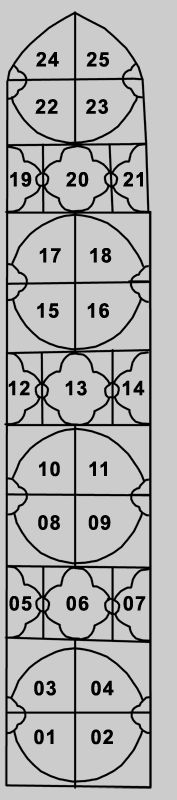 This is a map layout to the Saint Thomas Becket panel at the Chartres Cathedral